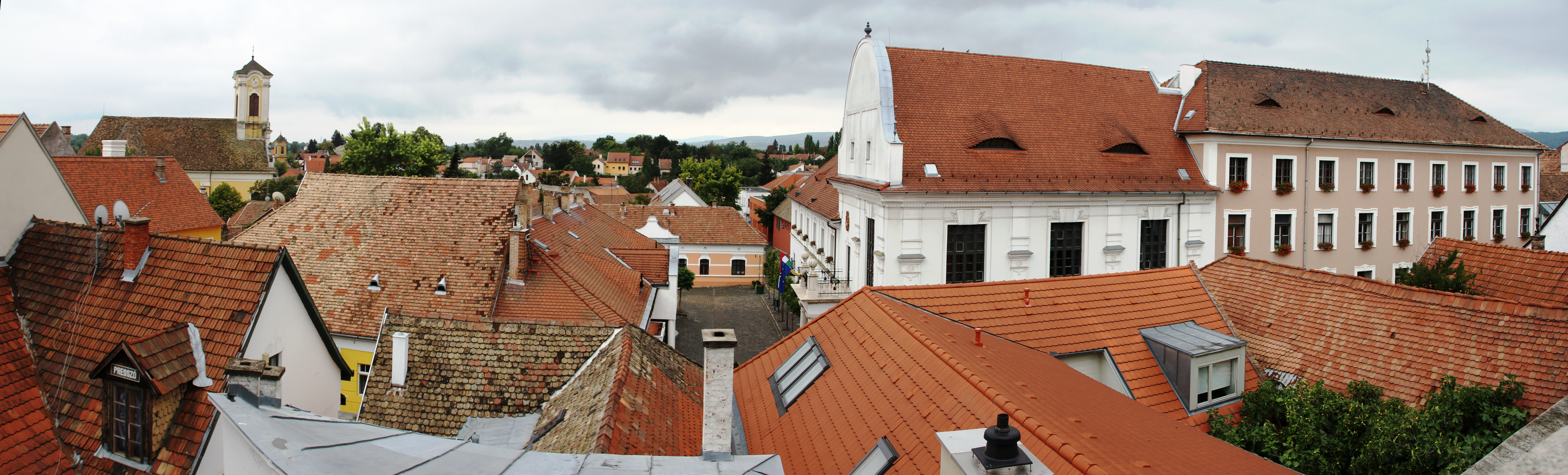 Panorama of the city of Szentendre, Hungary